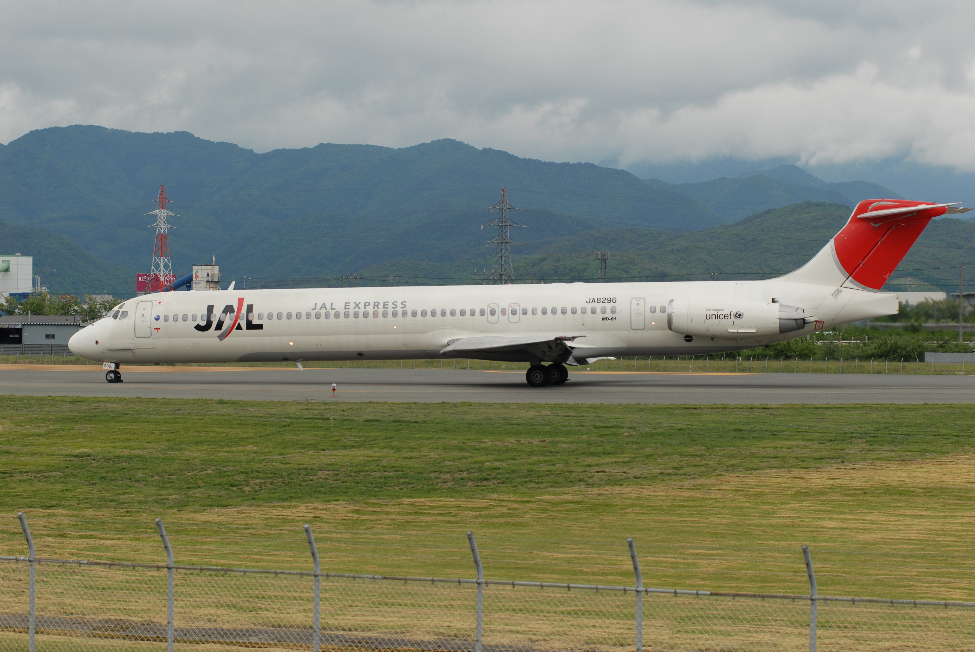 JAL MD-81